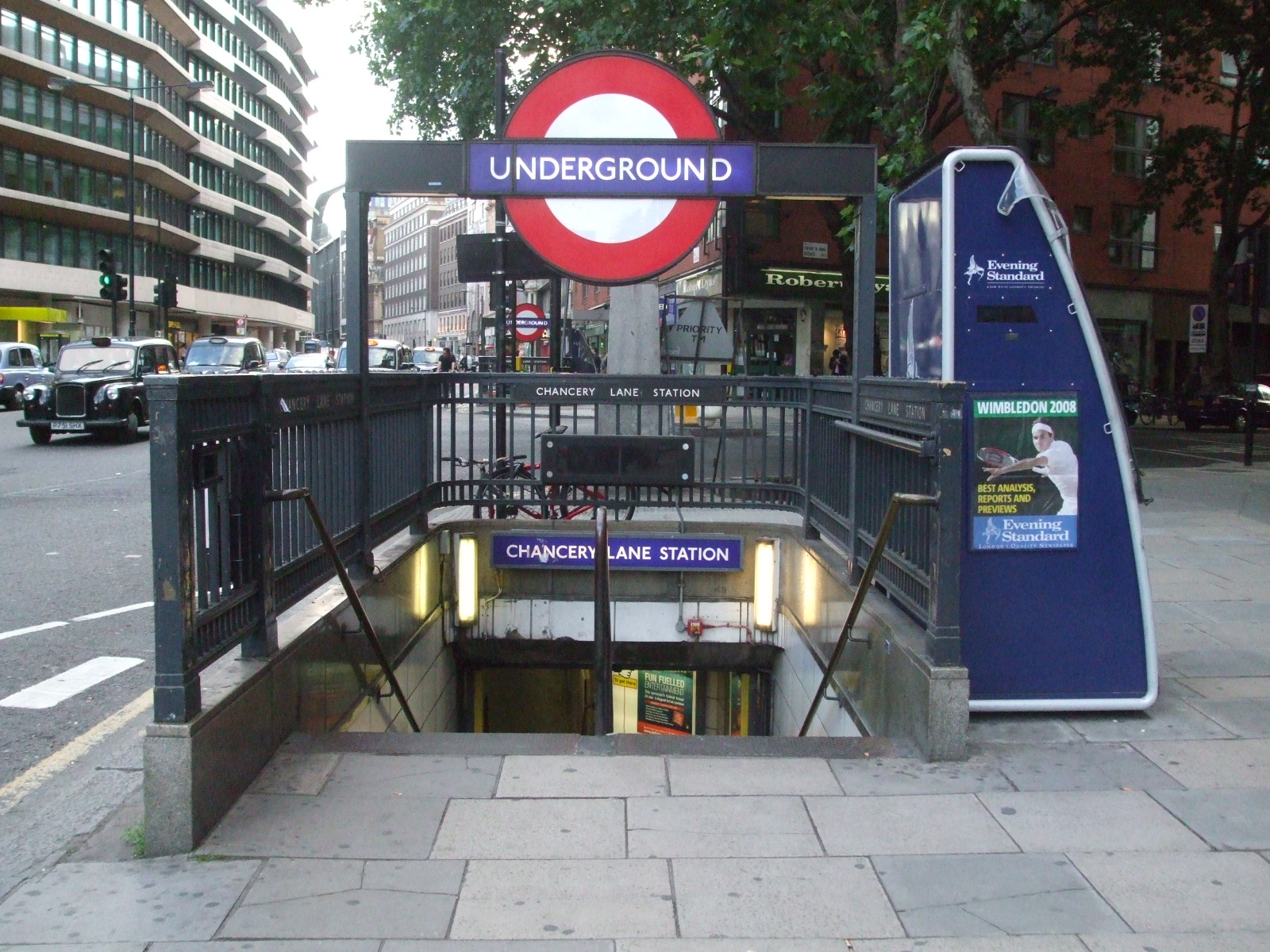 Northeast entrance to Chancery Lane tube station